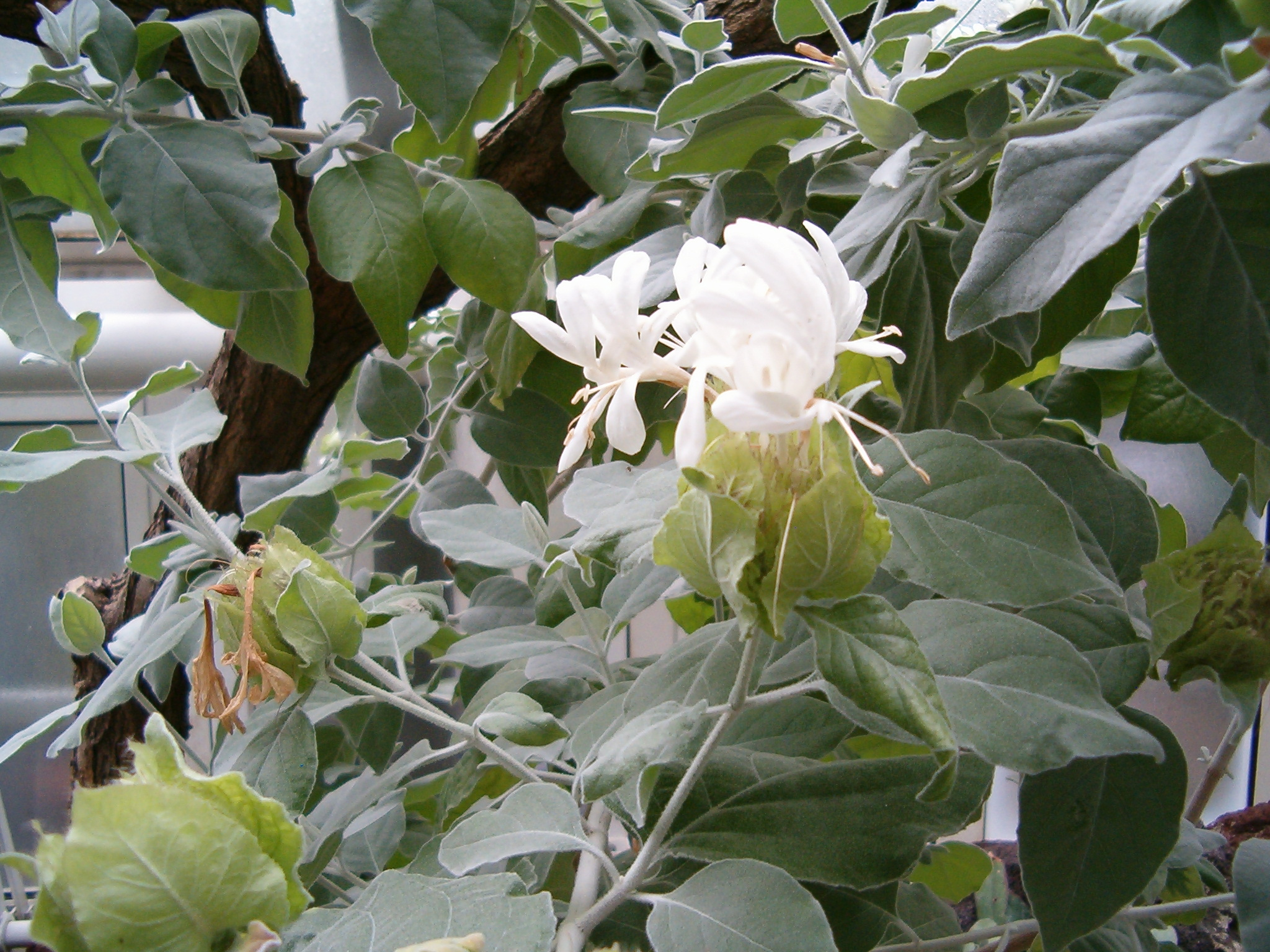 Location: Botanical Gardens Berlin Leaves, Inflorescence, white Flowers